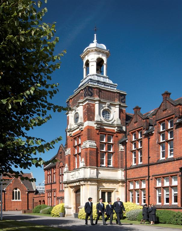 Brentwood School, Main School building, Ingrave Road view